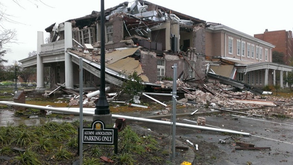 Damage to The Ogletree Alumni House on the University of Southern Mississippi campus from the 2013 Hattiesburg, Mississippi tornado.